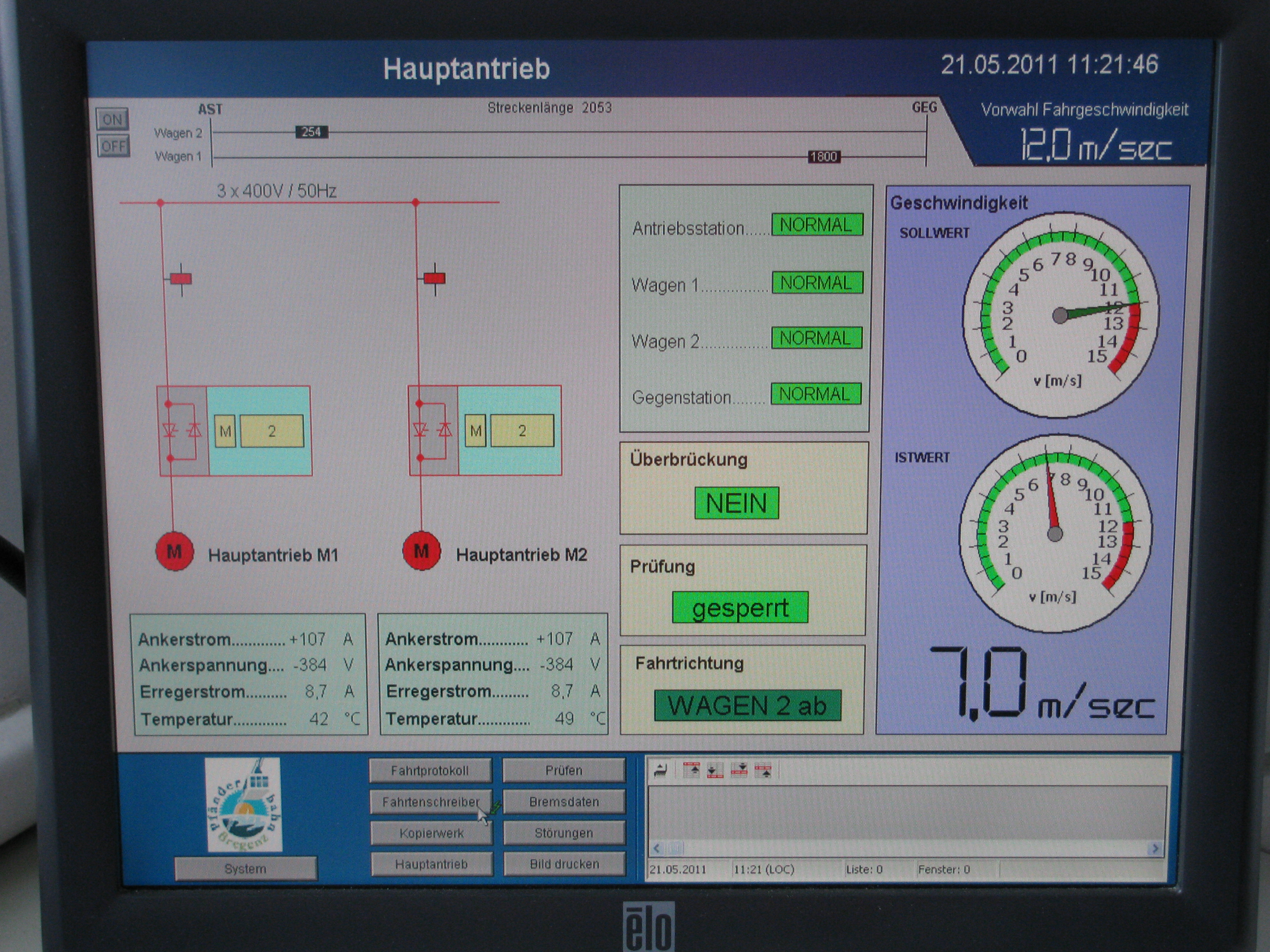 Austria - Vorarlberg - Bregenz: 'Pfänderbahn'-mountain station, display of cable car-control